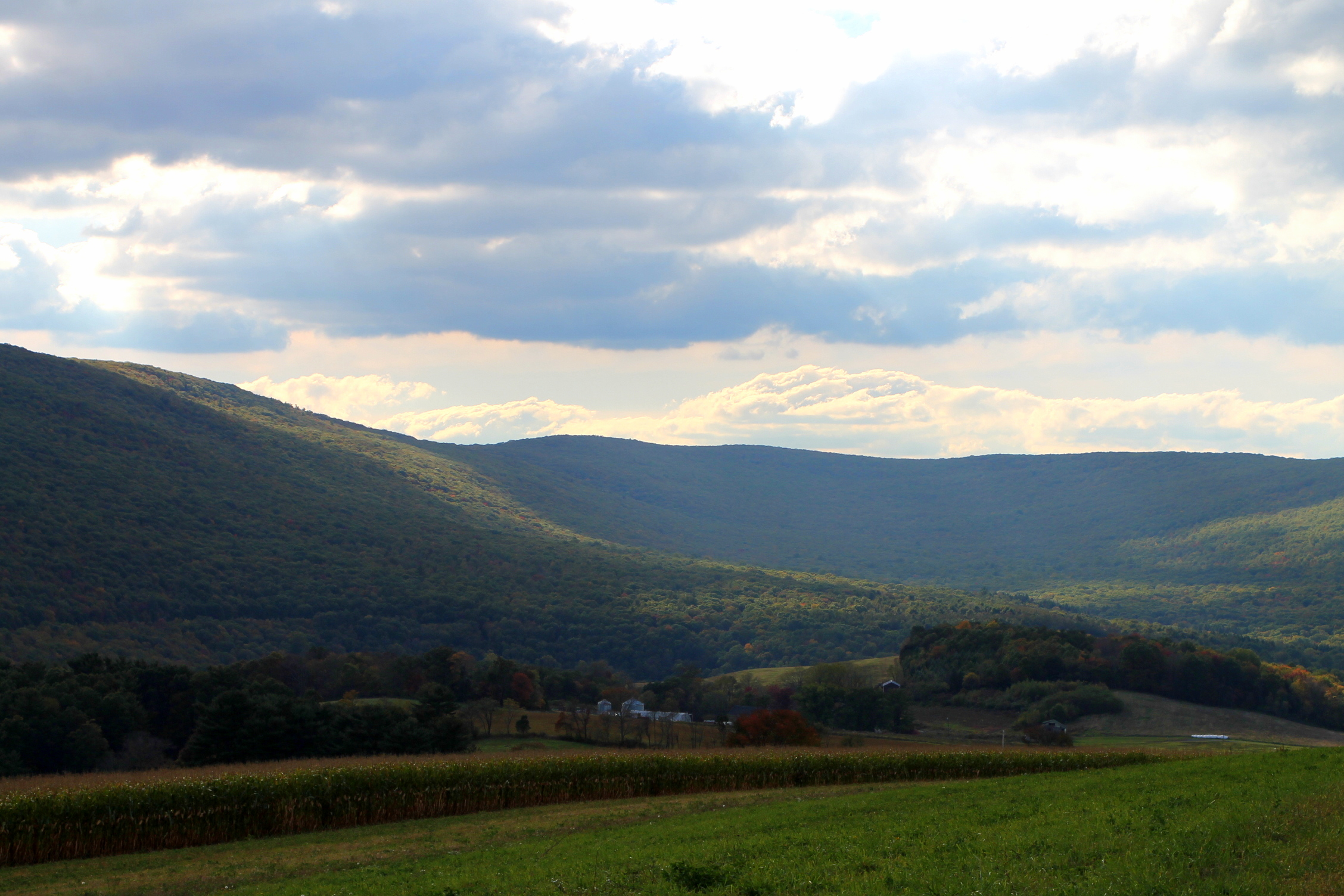 Catawissa Mountain from Pennsylvania Route 339 in southern Beaver Township, Columbia County, Pennsylvania